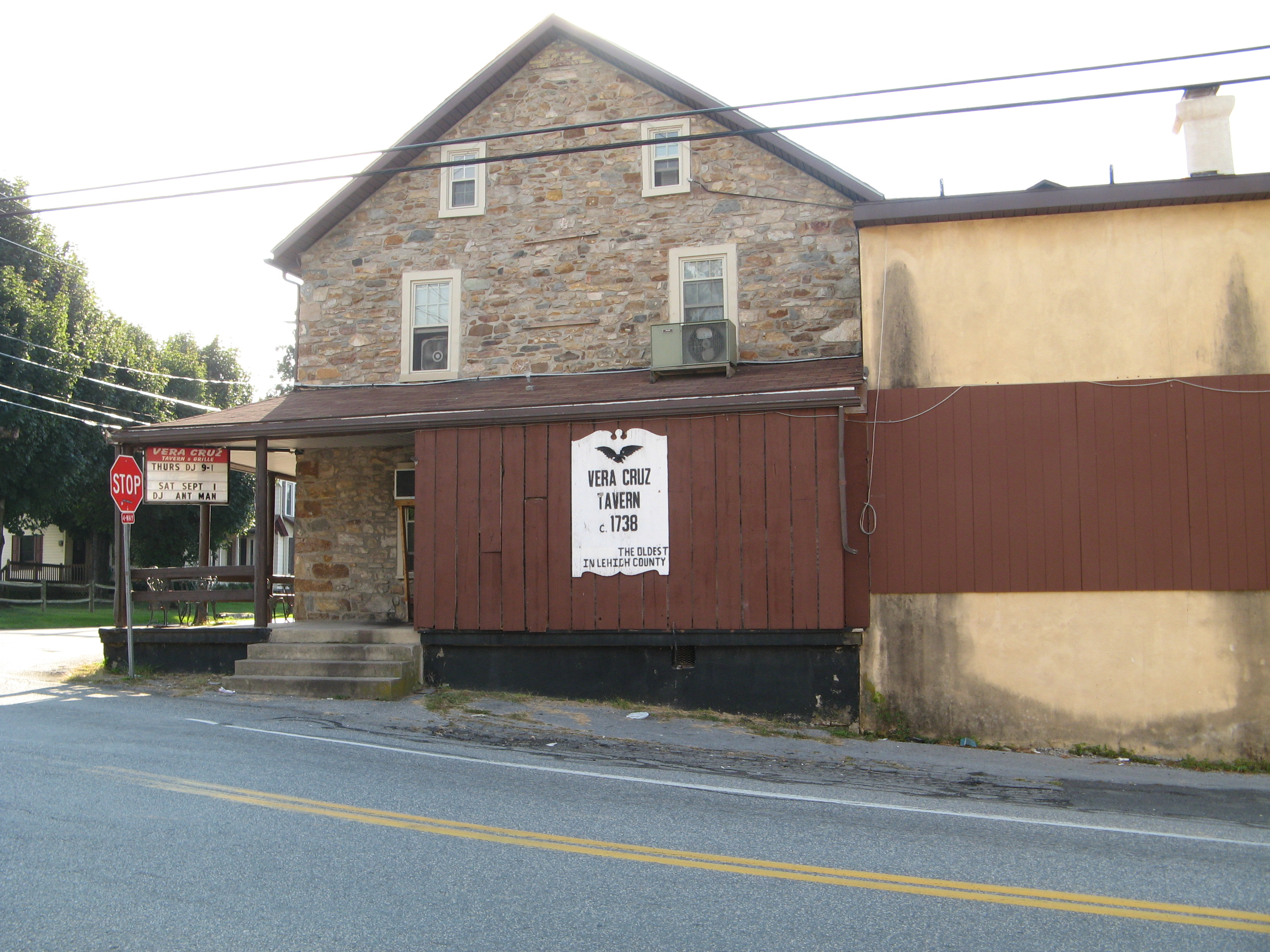 Vera Cruz Tavern - The oldest building in Lehigh County. Built right around 1738.